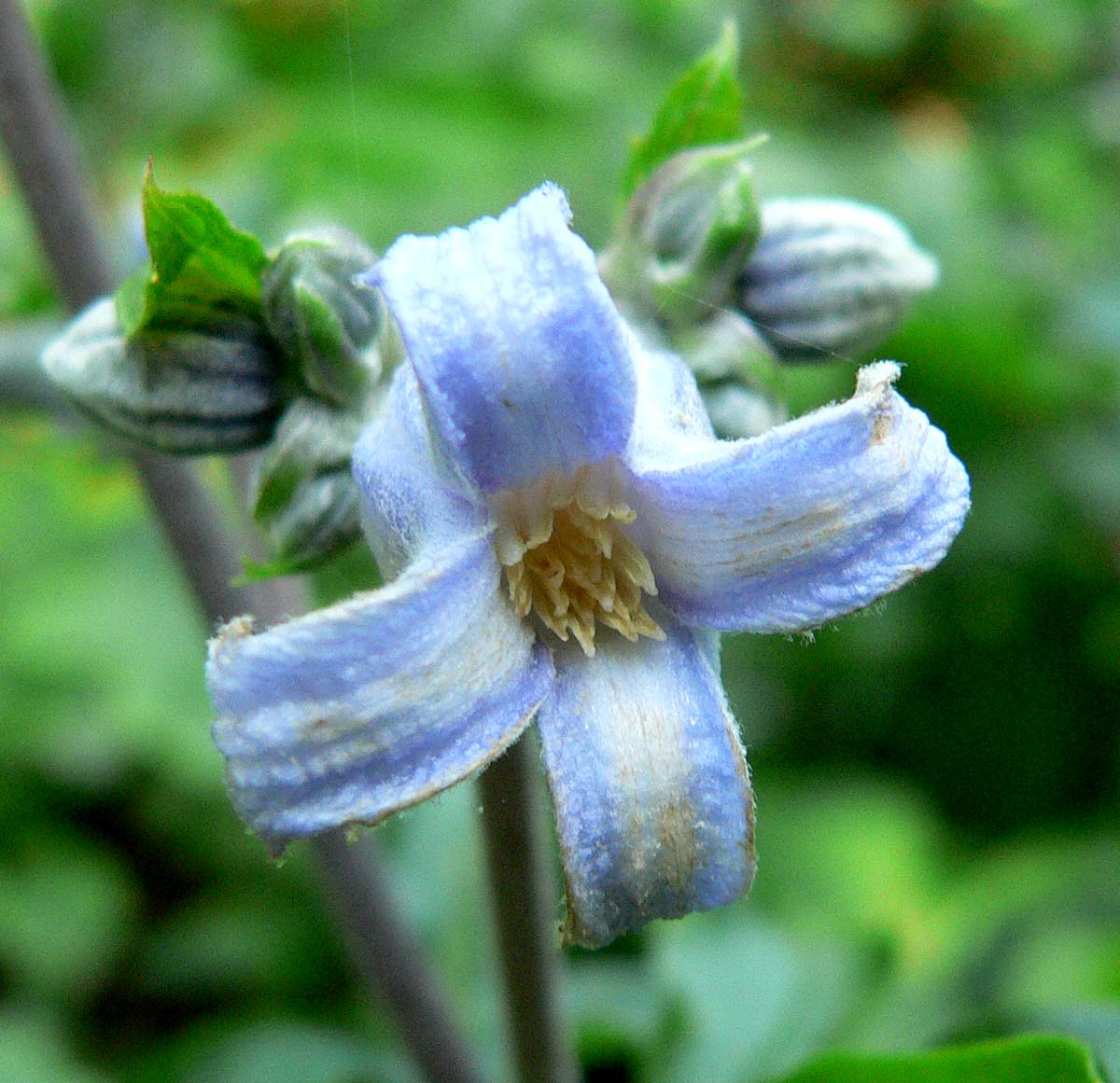 Photo of Clematis heracleifolia at the VanDusen Botanical Garden in Vancouver